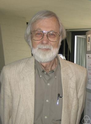 John Milnor at the Celebration of the 90th birthday of Beno Eckmann, Zürich